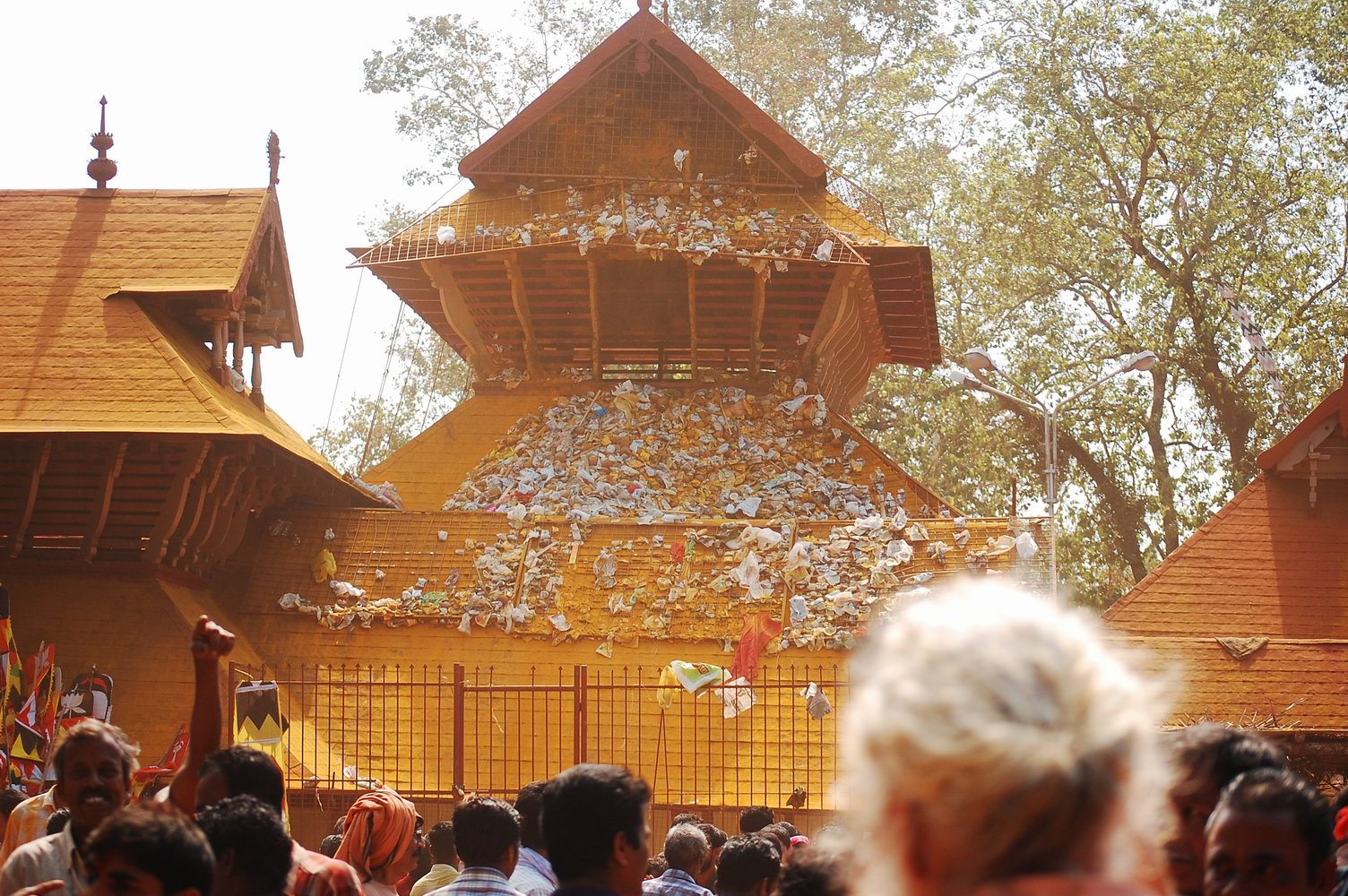 Turmeric polluting Kodungallur Temple for Bharani